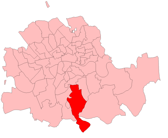 A map of Dulwich constituency within the Metropolitan Board of Works area, as it existed from 1885 to 1918.